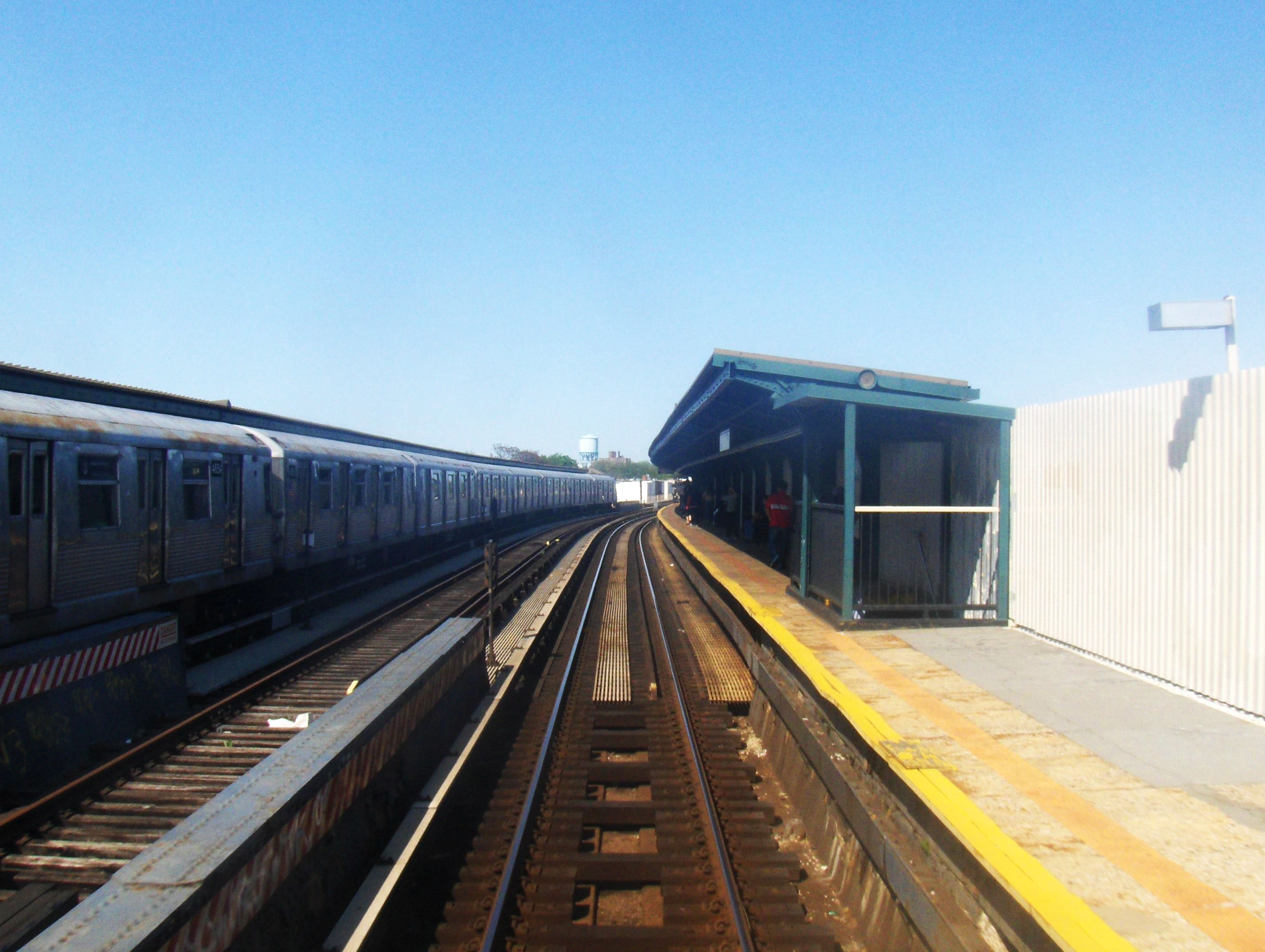 111th Street on the J line